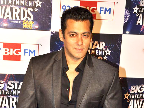 Indian film actor Salman Khan at BIG Star Entertainment Awards 2011.